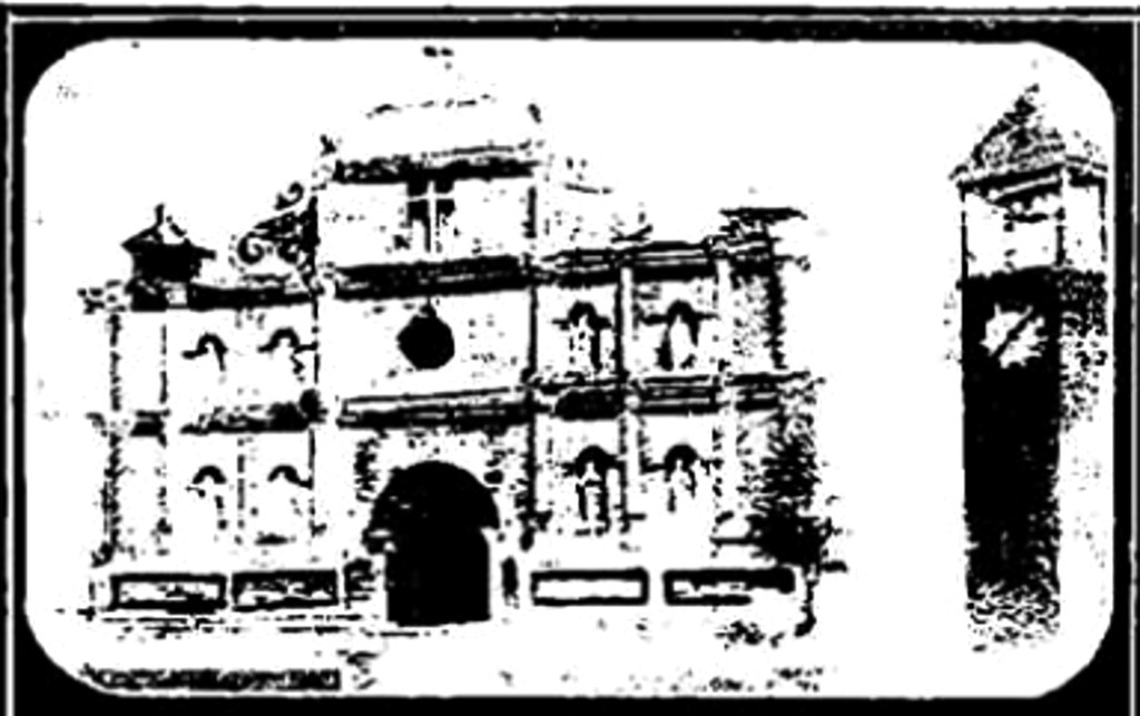 Lithograph showing the central parish of the city of Santa Ana (El Salvador) in the 1870s (with its colonial appearance before its facade was reconstructed in 1881 due to damage and deterioration caused by the impact of lightning ), along with a masonry turret built by the municipality to house the clock while the municipal palace was being built.